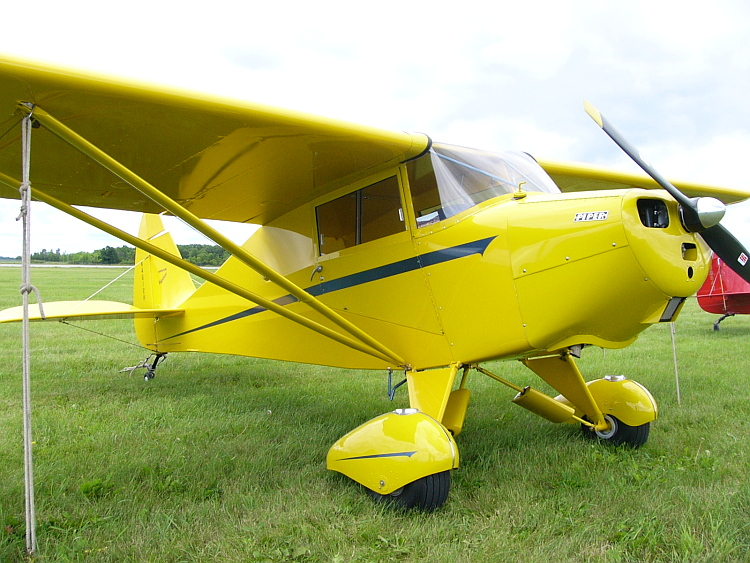 I took this photo of a Piper PA-17 Vagabond at the Short Wing Piper Club Convention in Kingston 6 July 2006.